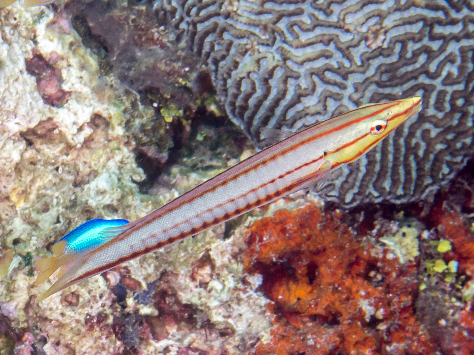 Morotai, Indonesia - Pastel ring wrasse (Hologymnosus doliatus)